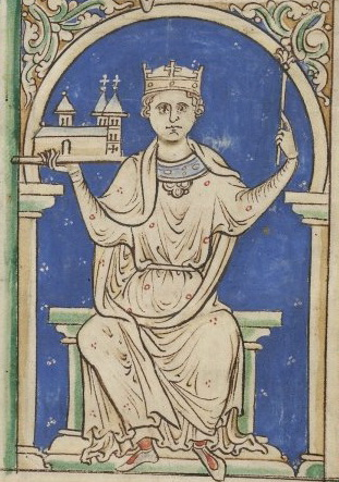 Stephen of Blois, King of England. (British Library, MS Royal 14 C VII f.8v)